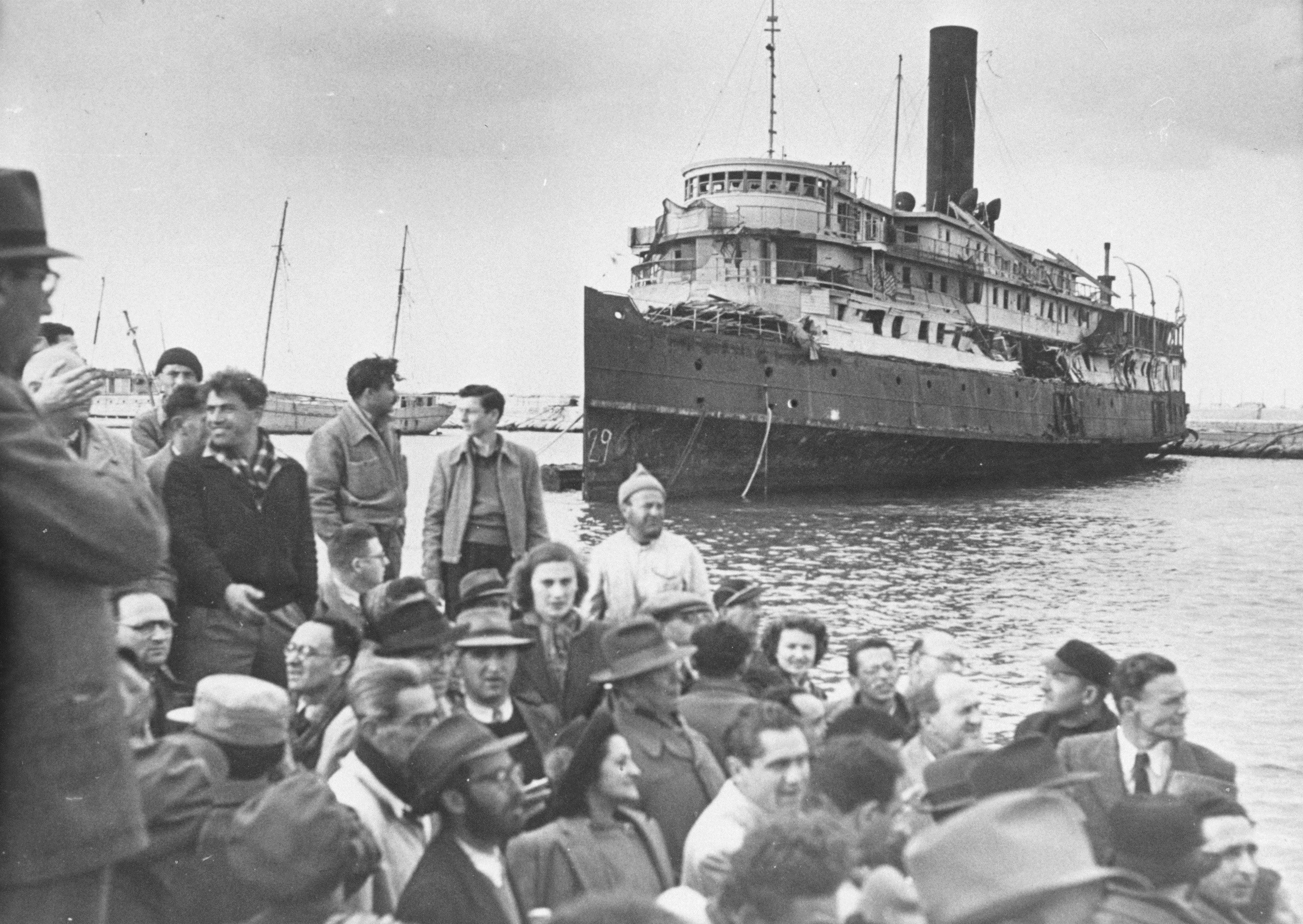 The Palmach, Immigration to Israel